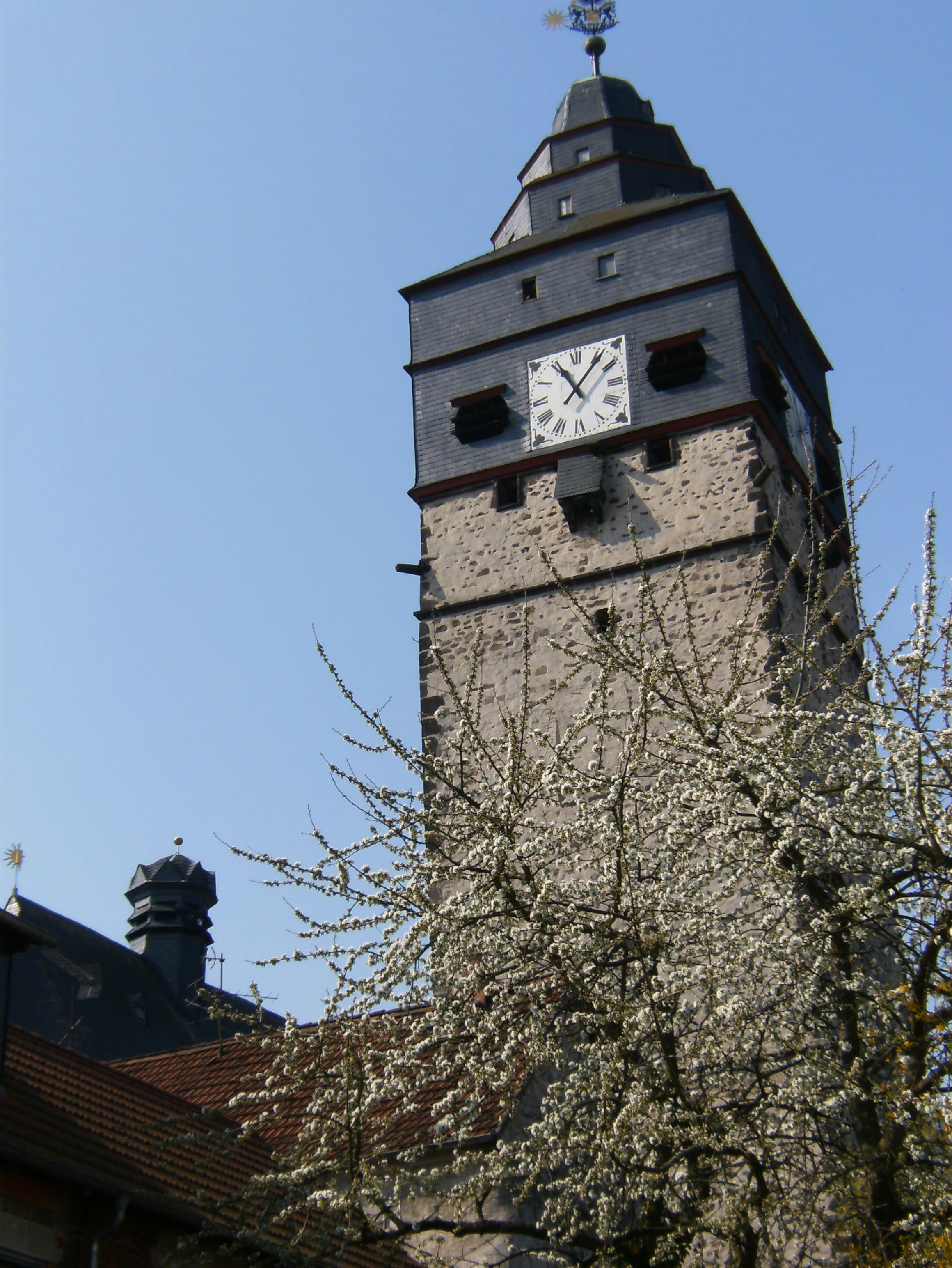 Municipal Tower.